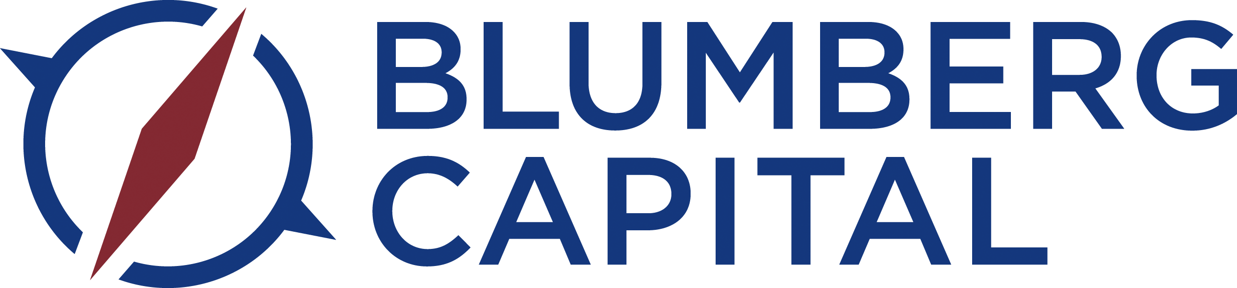 this is the updated logo for Blumberg Capital